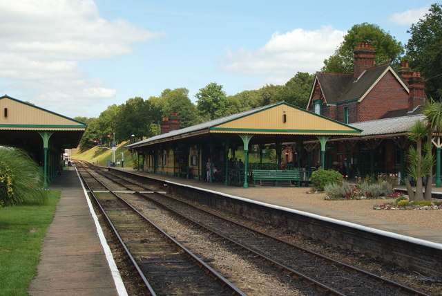 Horsted Keynes Station, Sussex Trains have headed north, and south, and the station regains peace and quiet for the next 45 minutes. I'm looking north, from platform 2, and platforms 3,4,5 can be seen to the right of picture.